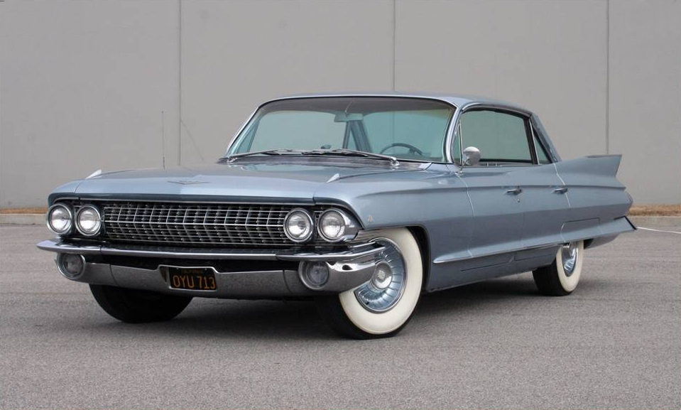 This is a picture of a vehicle (name of it is on the file name).